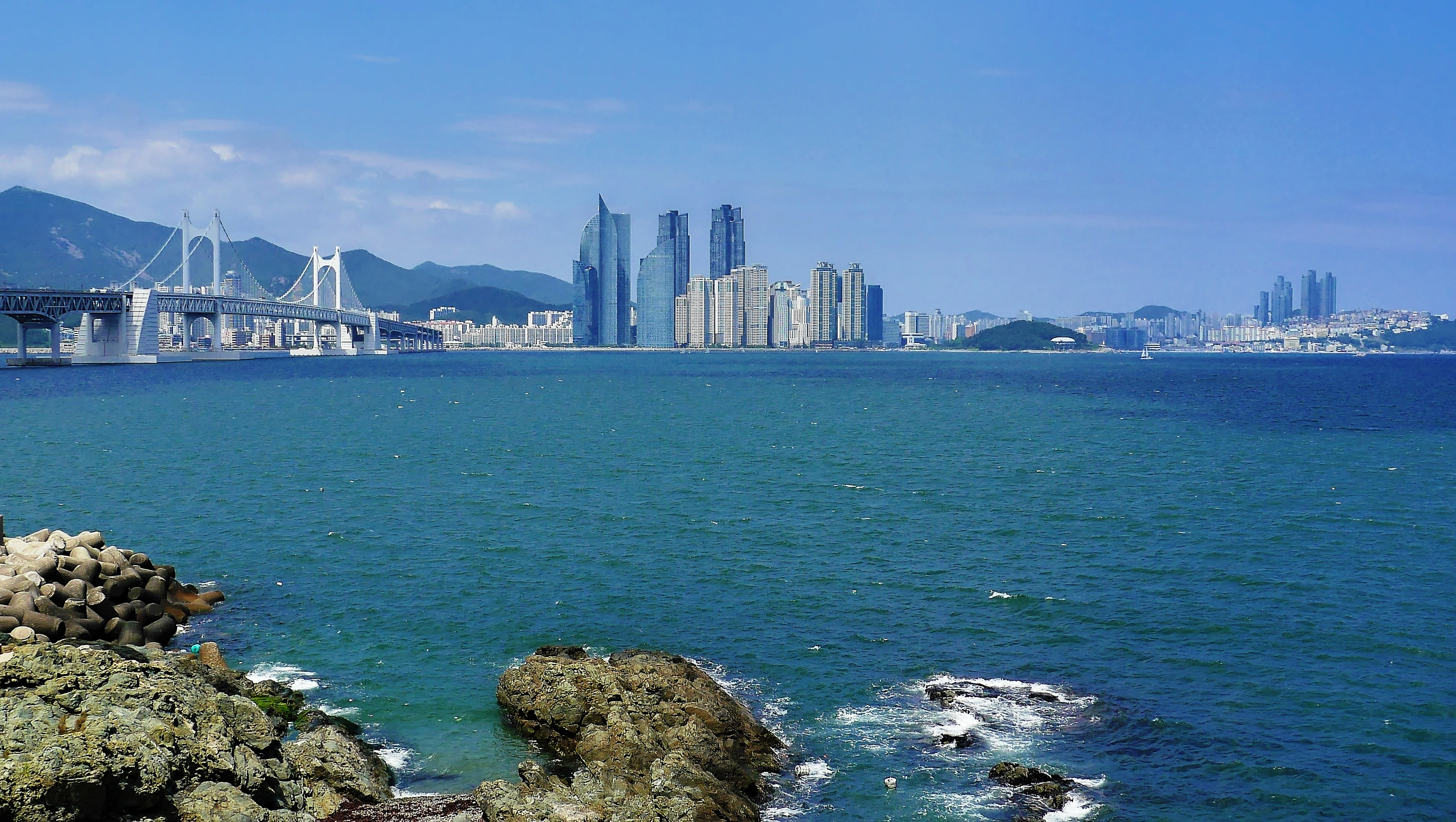 View from Igidae